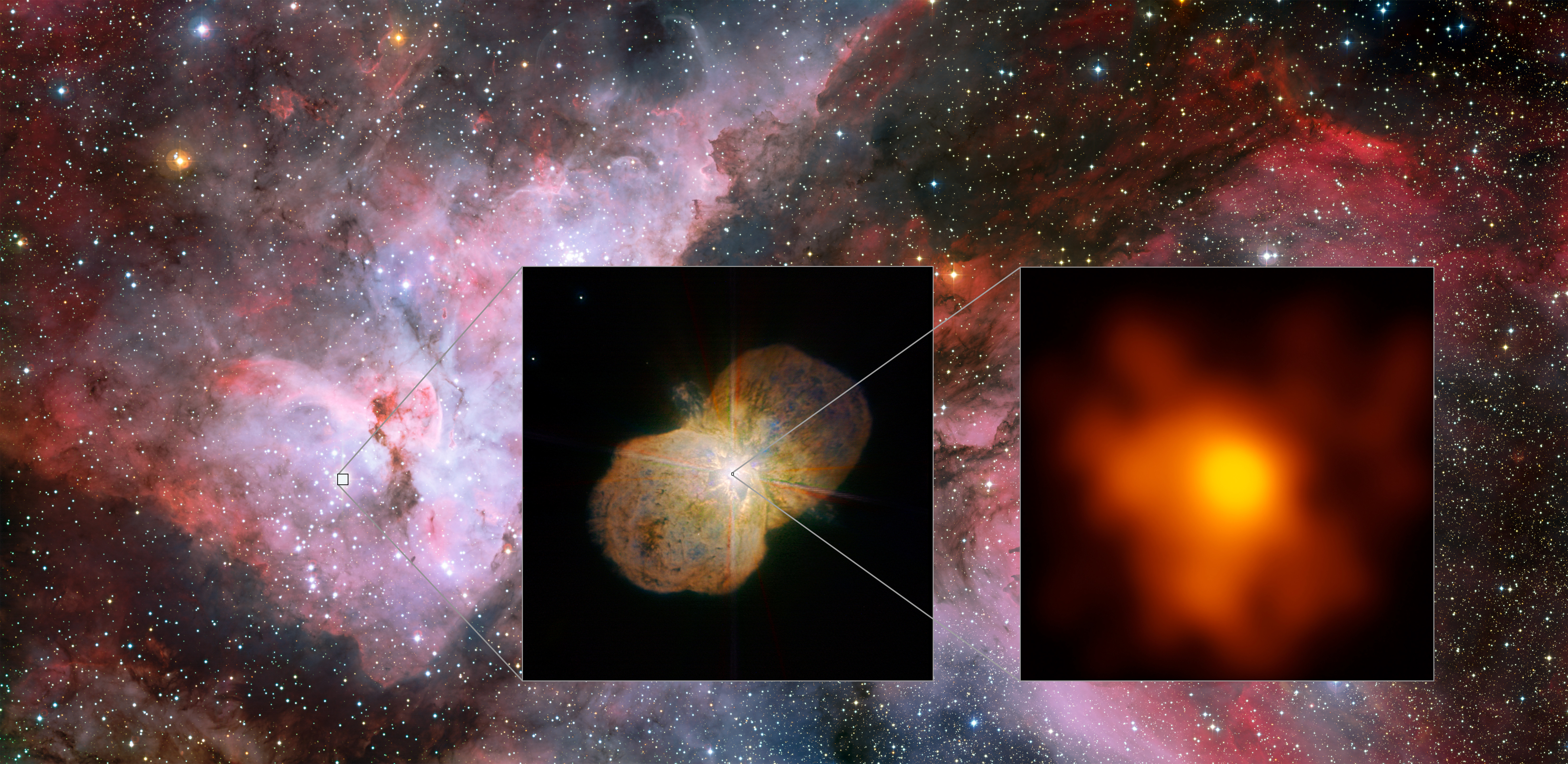 This mosaic shows the Carina Nebula (left part of the image), home of the Eta Carinae star system. This part was observed with the Wide Field Imager on the MPG/ESO 2.2-metre telescope at ESO’s La Silla Observatory. The middle part shows the direct surrounding of the star system: the Homunculus Nebula, created by the ejected material from the Eta Carinae system. This image was taken with the NACO near-infrared adaptive optics instrument on ESO's Very Large Telescope. The right image shows the innermost part of the system as seen with the Very Large Telescope Interferometer (VLTI). It is the highest resolution image of Eta Carinae ever.